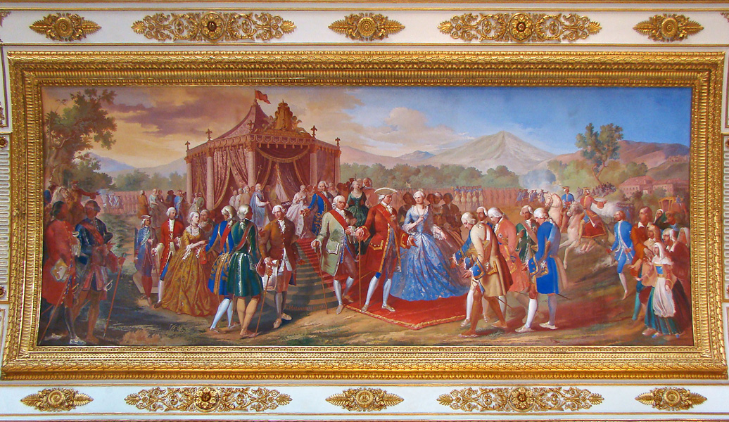 Royal Palace, Caserta, Campania, Italy. Ceiling of the Throne Room.